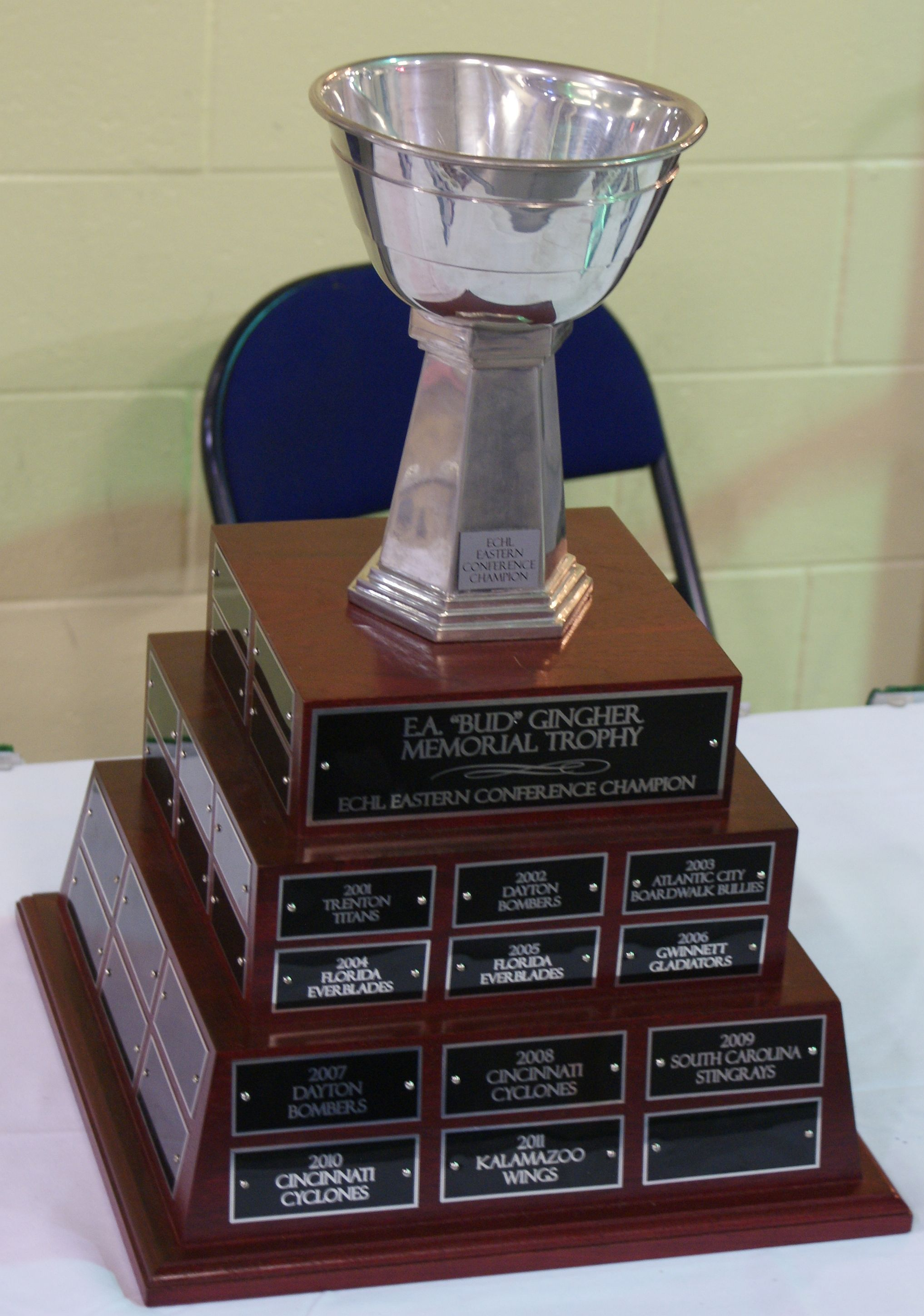 The Gingher Memorial Trophy, the trophy awarded to the Eastern Conference champions of the ECHL, on display at Germain Arena